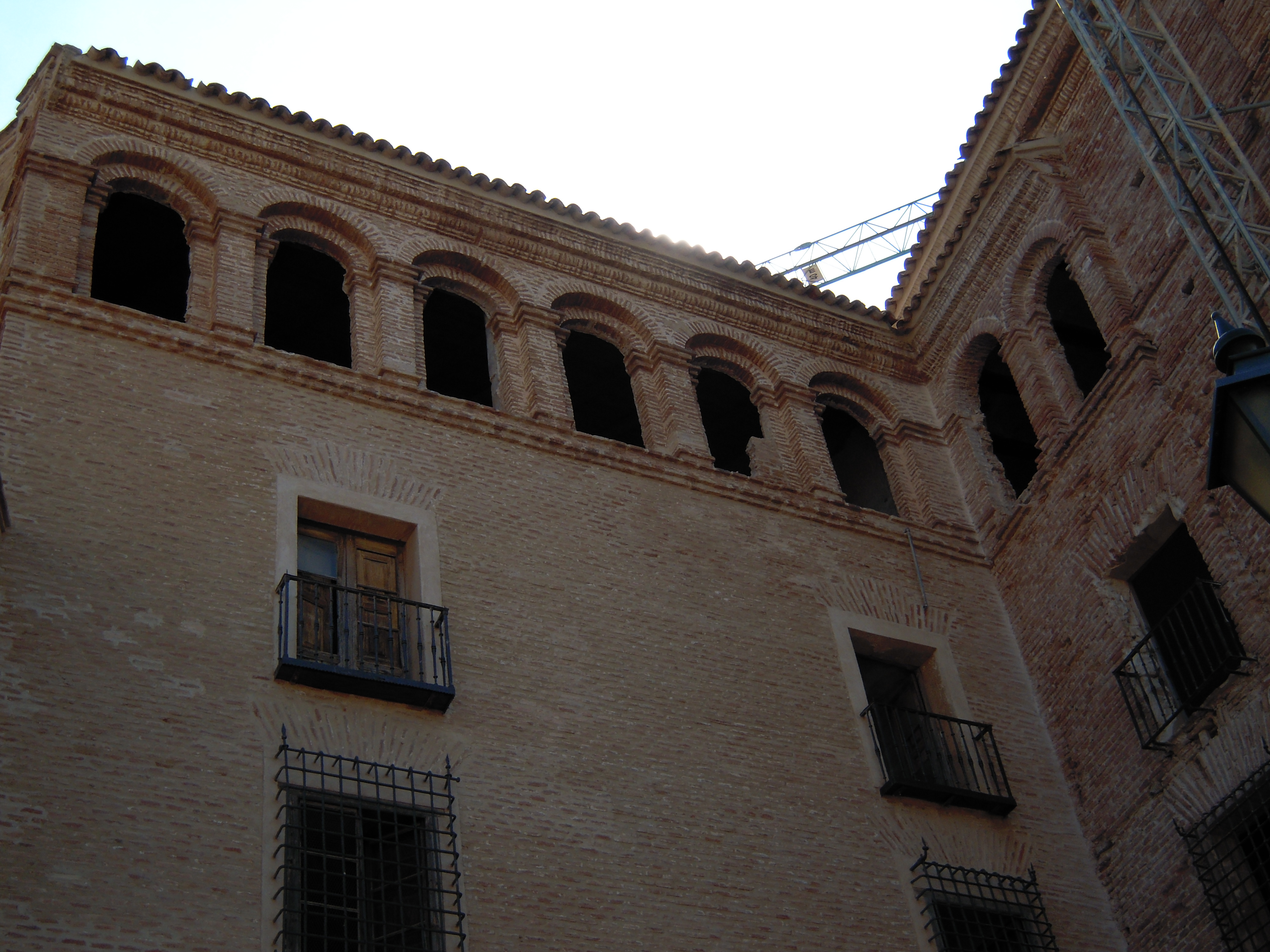 Current status of blind galleries of the palace. Earrings reposition the lattice Mudejar plaster work retreats to consolidate primary windows are arches.